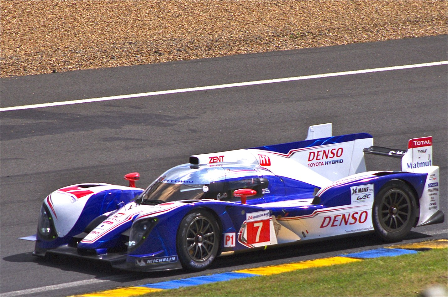 Toyota TS030 Hybrid, Le Mans 24 Hours, 2012